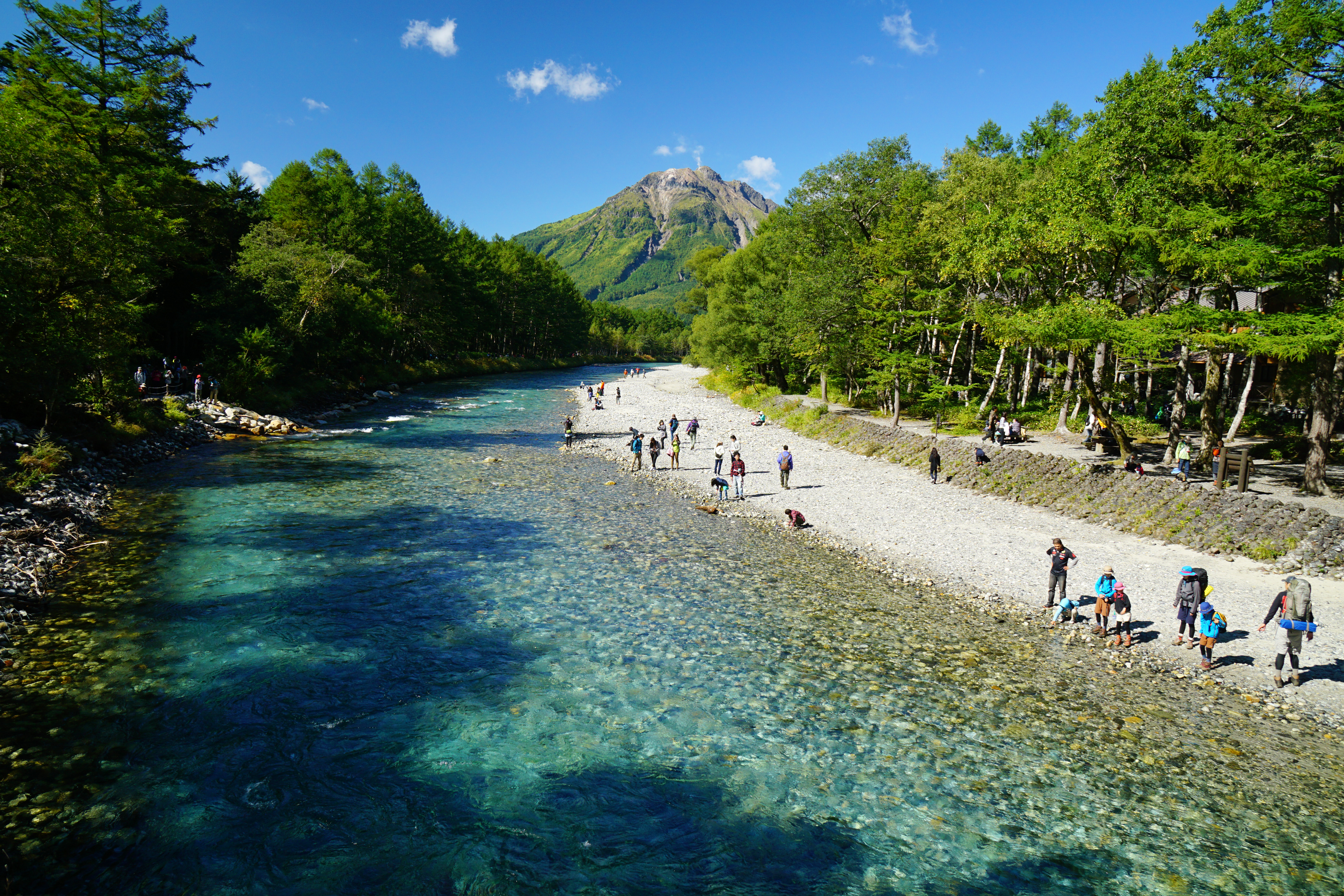 Azusa River and Mount Yake at Kamikochi, Matsumoto, Nagano prefecture, Japan